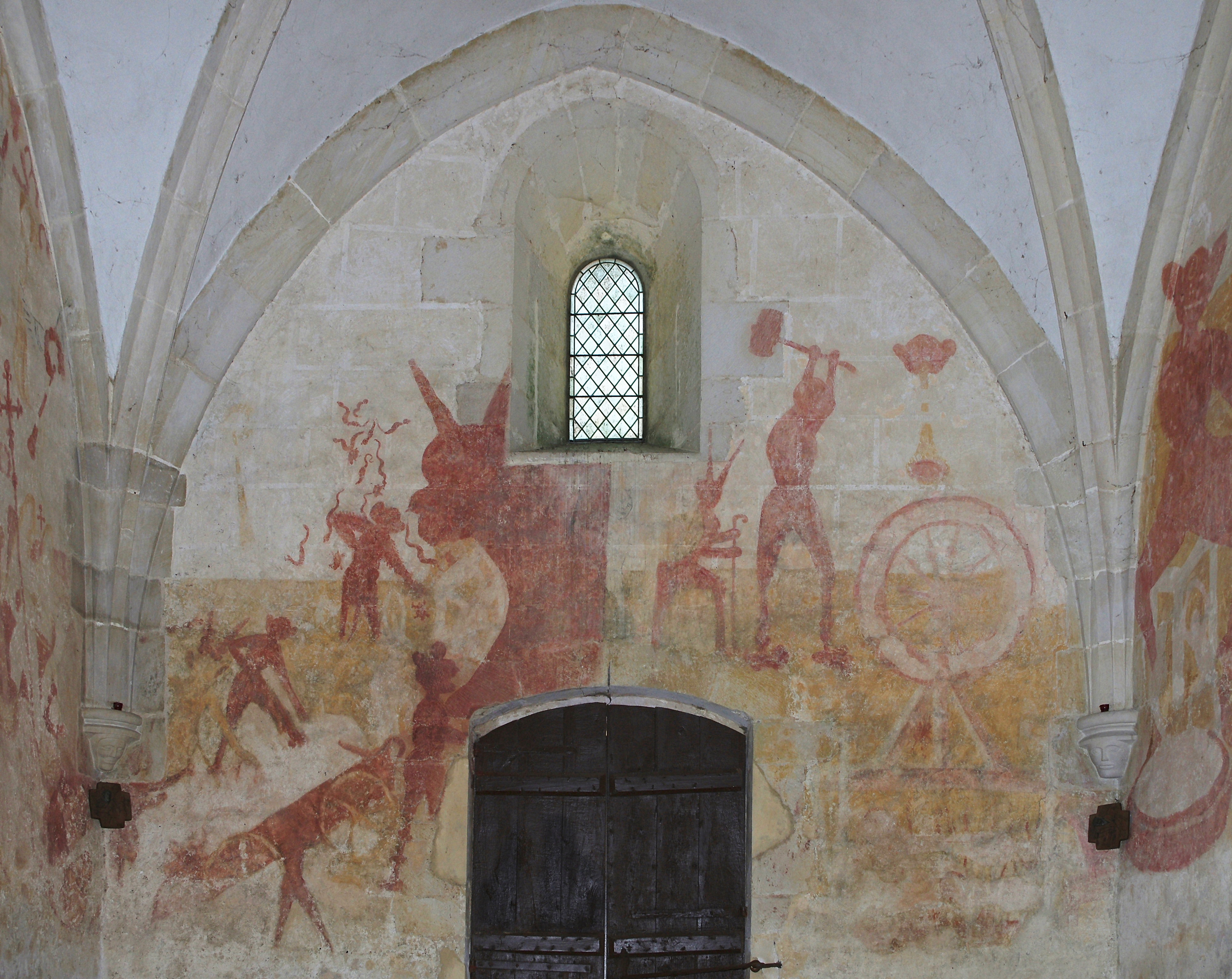 Church of Saint-Martin, frescoes on the west wall : hell. Champniers, Vienne, France.